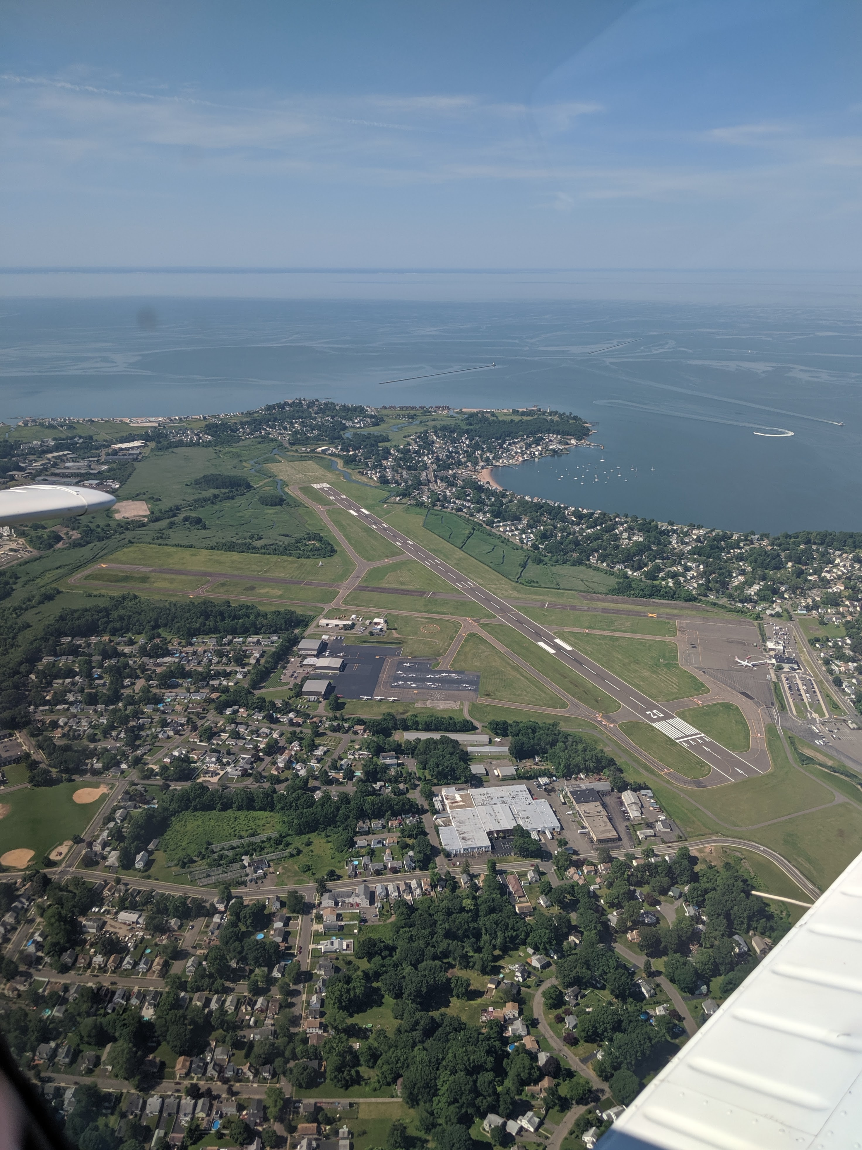 HVN runway 02/20 in 2019. Runway 14/32 is closed in this photo.